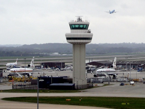 Gatwick Air Traffic Control tower. Seen from passenger footbridge between North Terminal and Pier 6 satellite building.